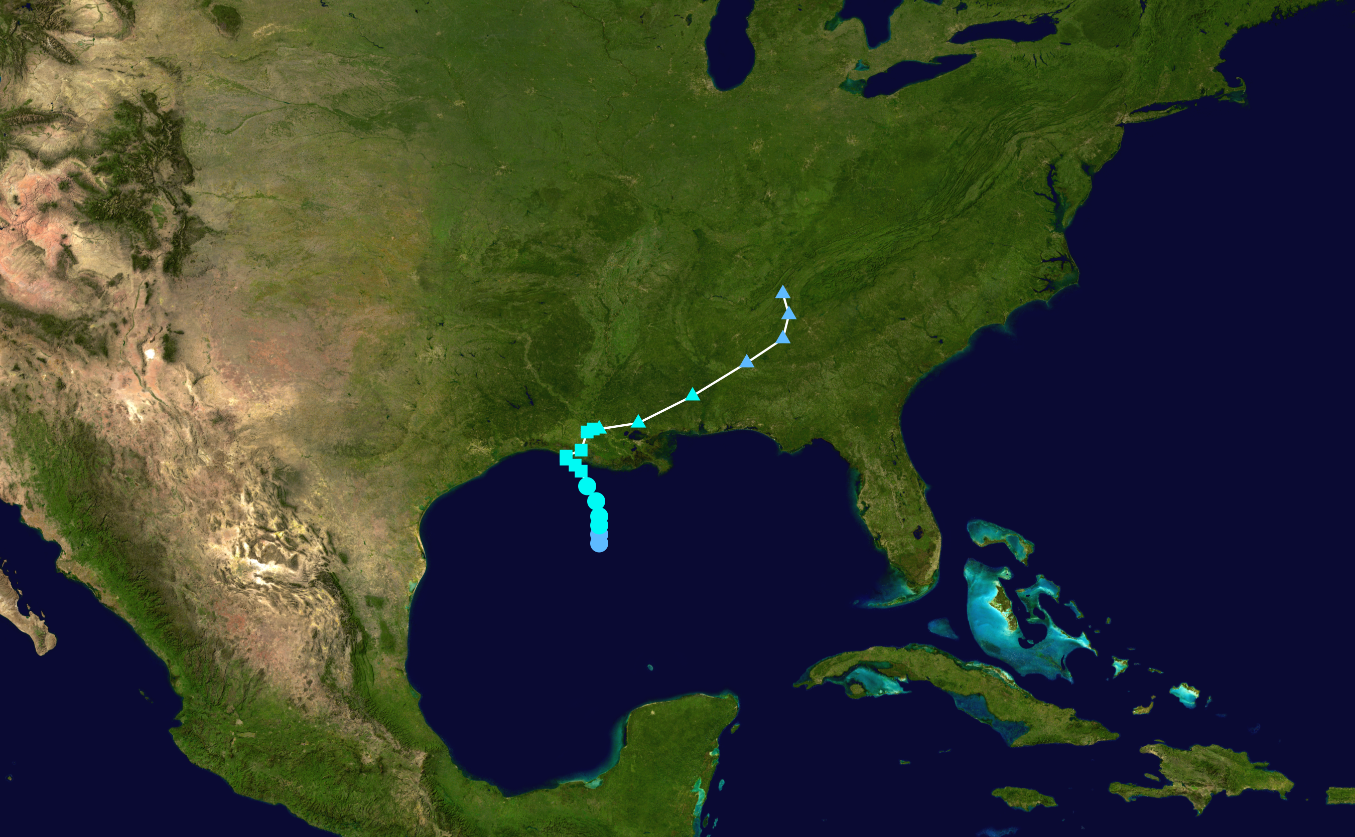 Track map of Tropical Storm Lee of the 2011 Atlantic hurricane season. The points show the location of the storm at 6-hour intervals. The colour represents the storm's maximum sustained wind speeds as classified in the Saffir–Simpson scale (see below), and the shape of the data points represent the nature of the storm, according to the legend below. Saffir–Simpson scale Tropical depression≤38 mph≤62 km/h Category 3111–129 mph178–208 km/h Tropical storm39–73 mph63–118 km/h Category 4130–156 mph209–251 km/h Category 174–95 mph119–153 km/h Category 5≥157 mph≥252 km/h Category 296–110 mph154–177 km/h Unknown Storm type Tropical cyclone Subtropical cyclone Extratropical cyclone / Remnant low / Tropical disturbance / Monsoon depression